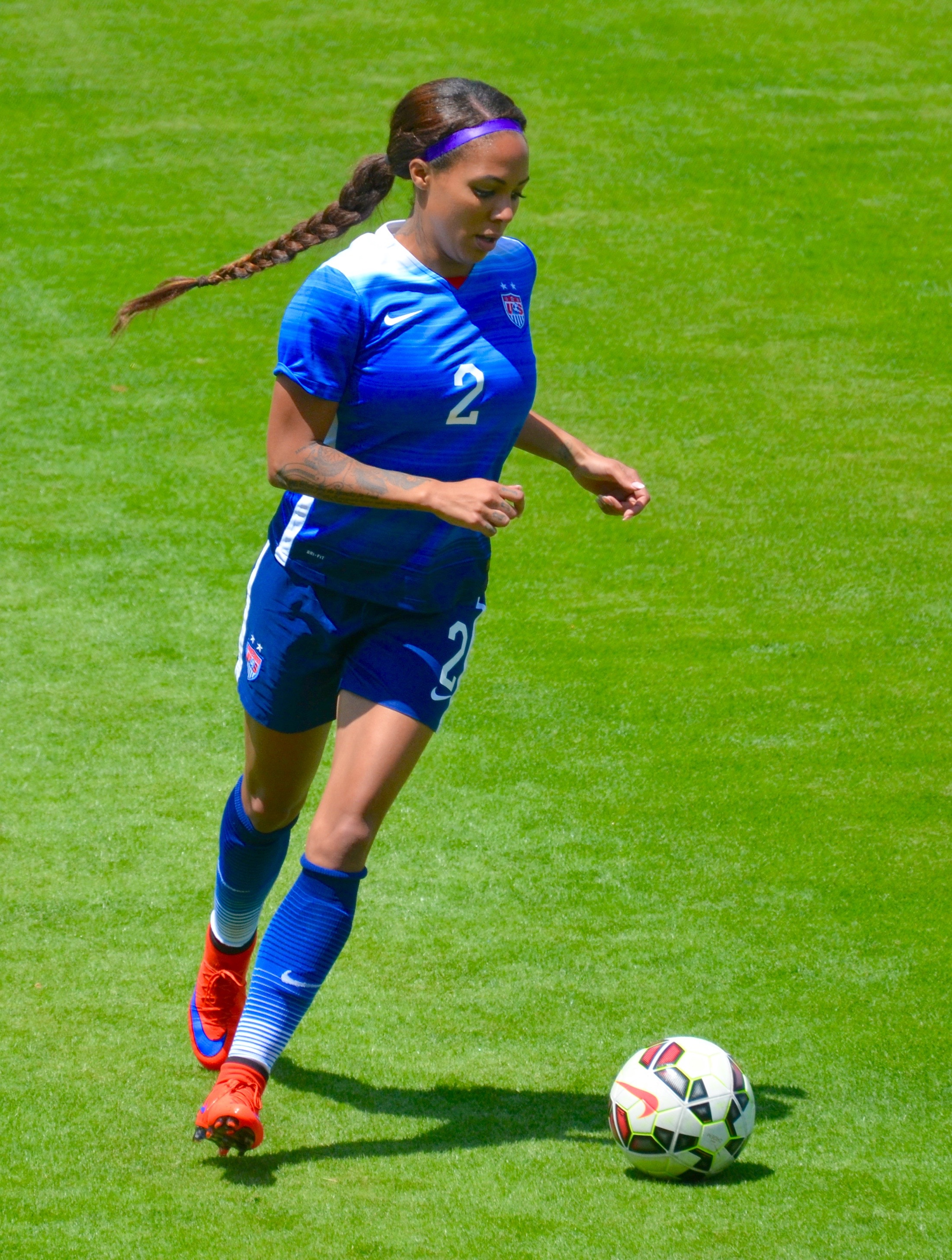 Sydney Leroux playing for the US Women's National Team in San Jose, California on 10 May 2015.